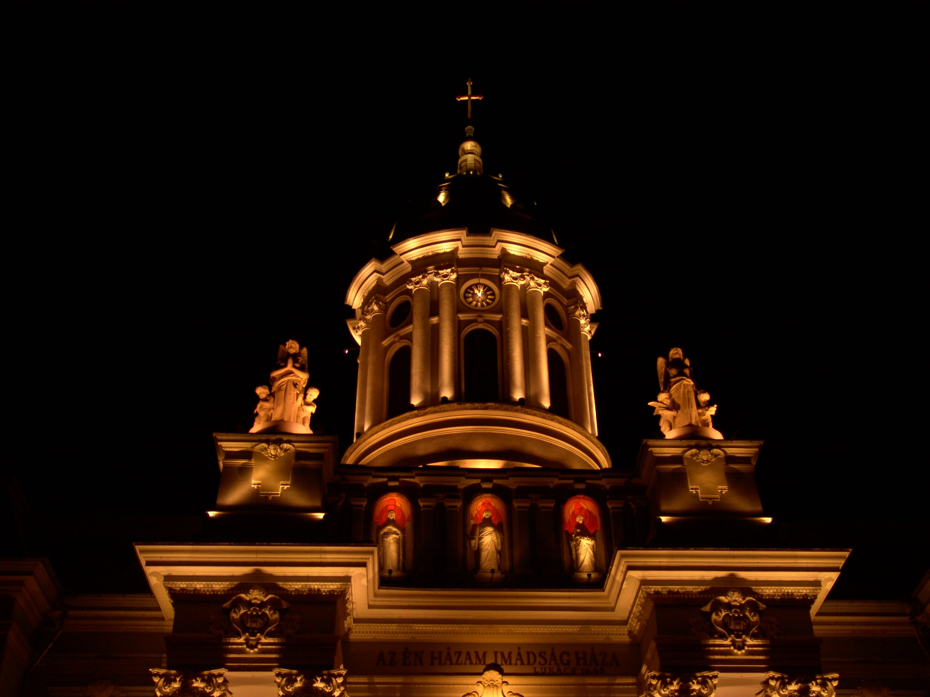 The Hungarian Catholic Cathedral in Arad, Romania.